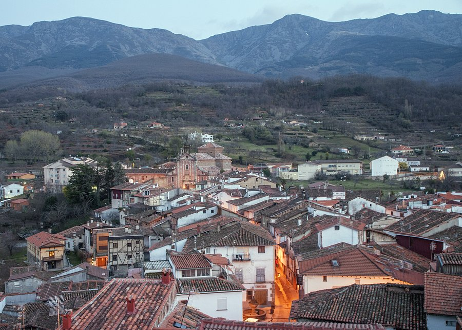 Iglesia de San Juan Bautista